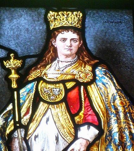 Jadwiga of Poland, Dominican Church and Convent of St. James in Sandomierz